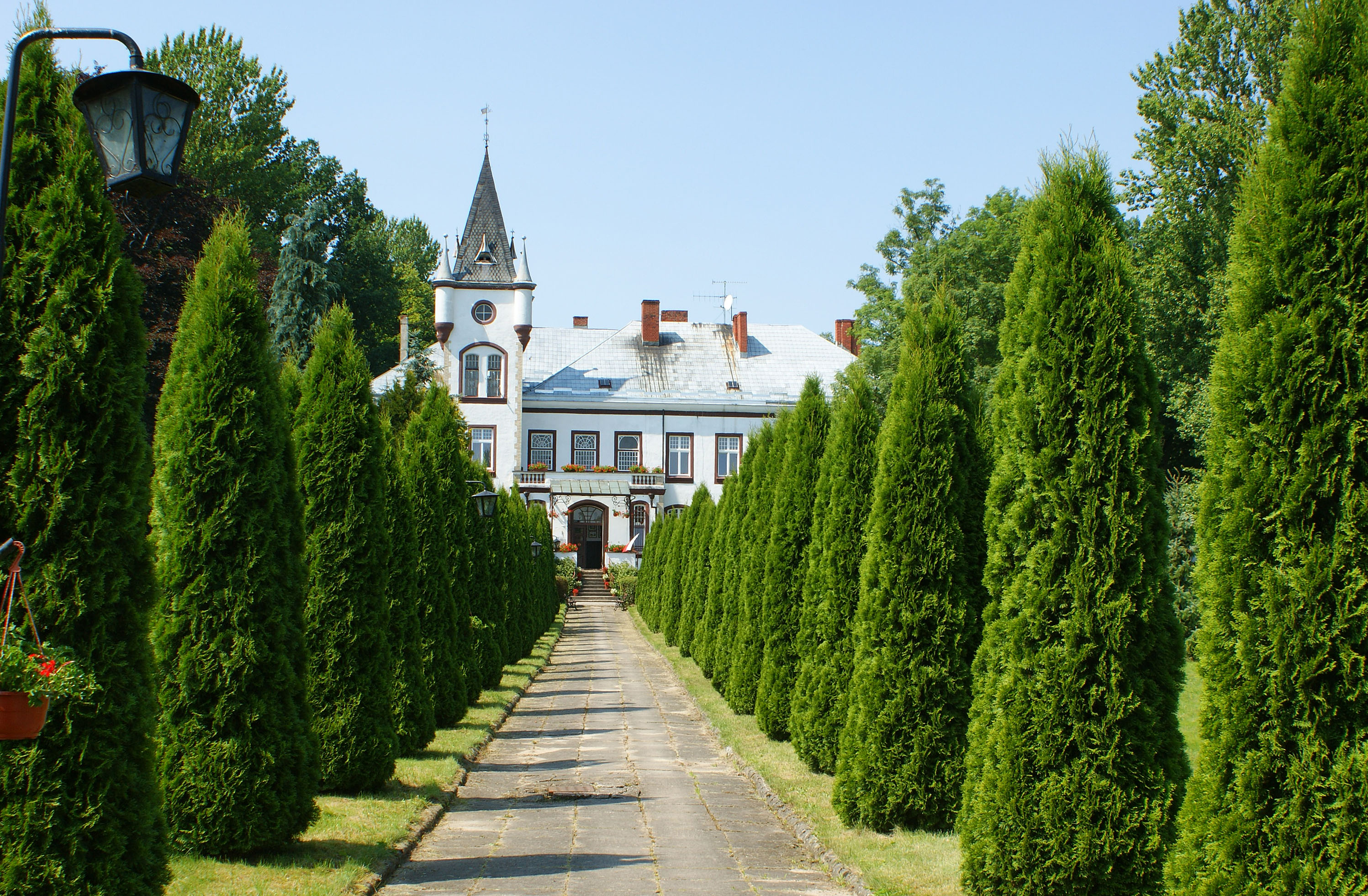 Manor in Noskowo, Sławno commune